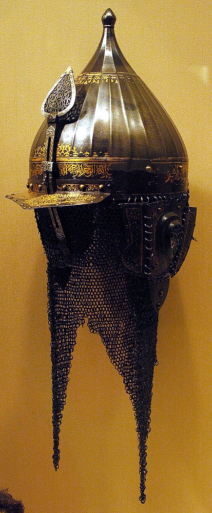 Helmet (chichak), steel, damascened with gold, Turkish, Ottoman period, Mid-16th century Item number: 04.3.456a, The Metropolitan Museum of Art.